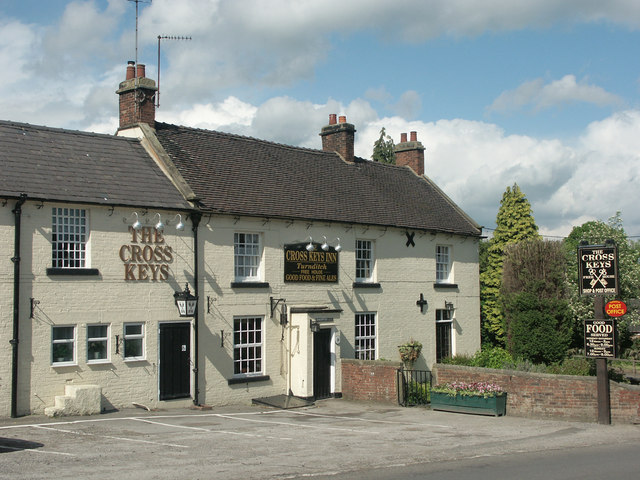 Turnditch. The Cross Keys public house.